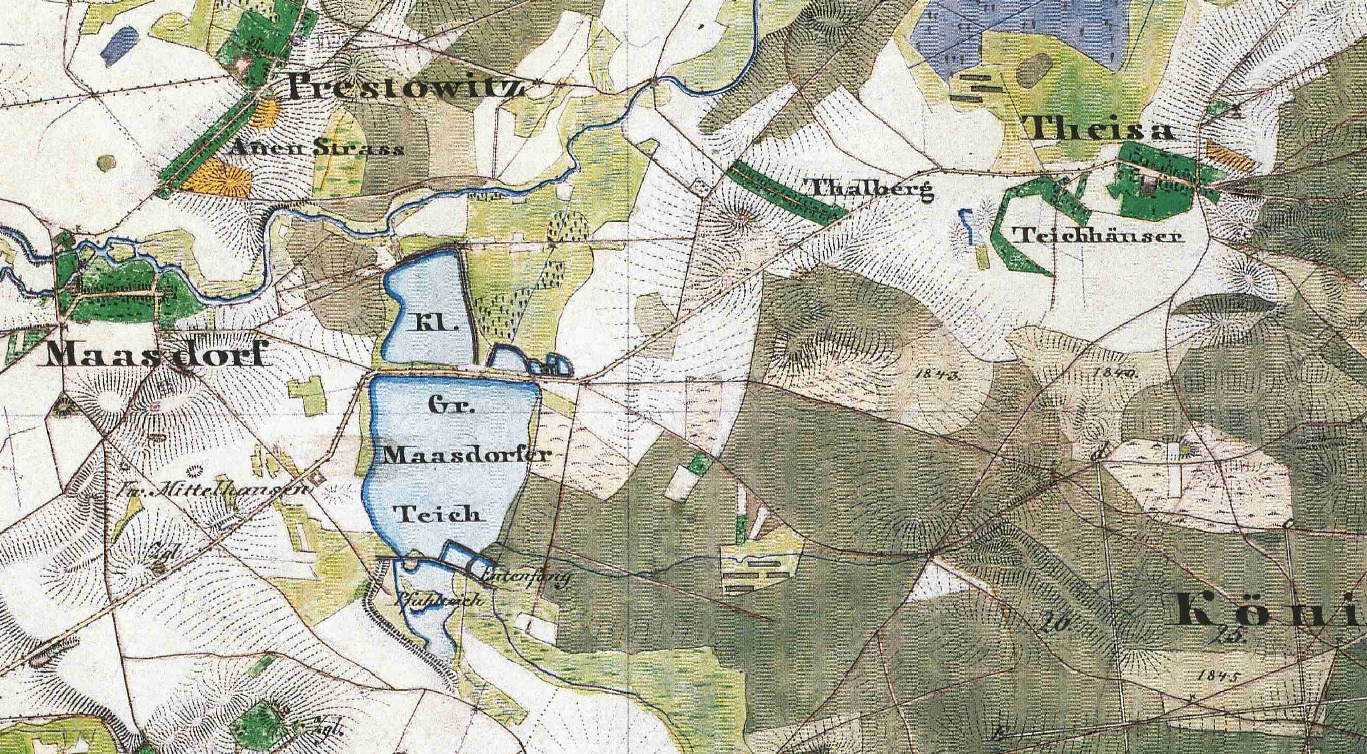 Maasdorfer Teiche, Lkr. Elbe-Elster, Brandenburg, Germany, detail from the Urmesstischblatt Sheet 4446 Liebenwerda, drawn in 1847